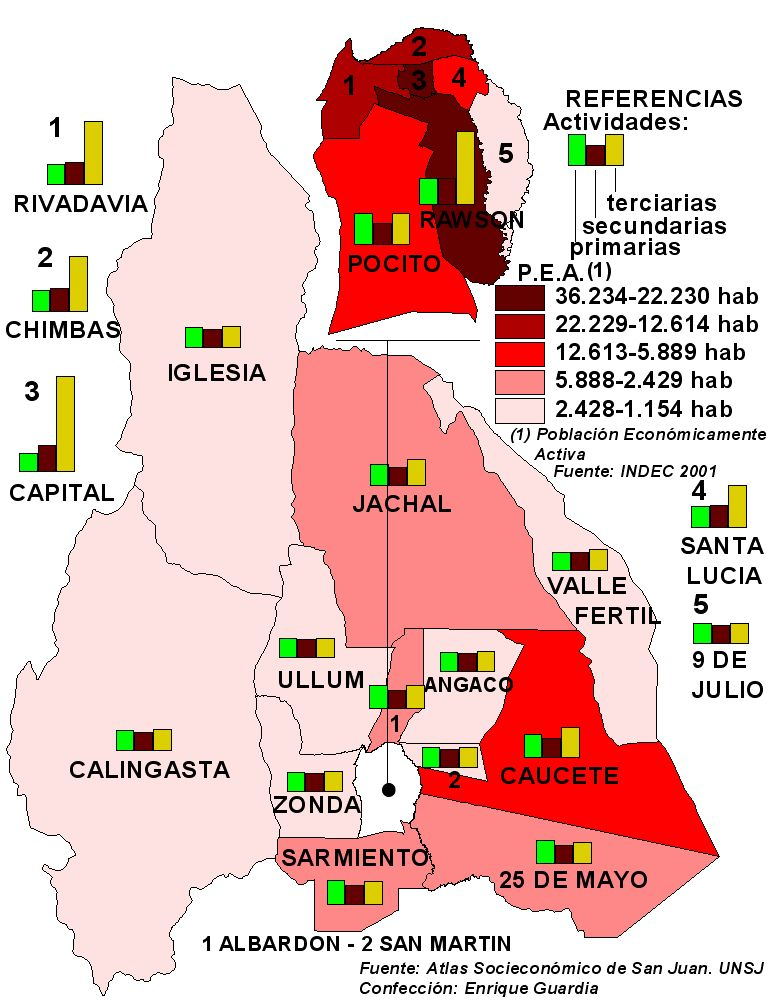 Distribution map of the Economically Active Population (P.E.A.) and Economic Activities of the San Juan Province Cantr located west of Argentina.